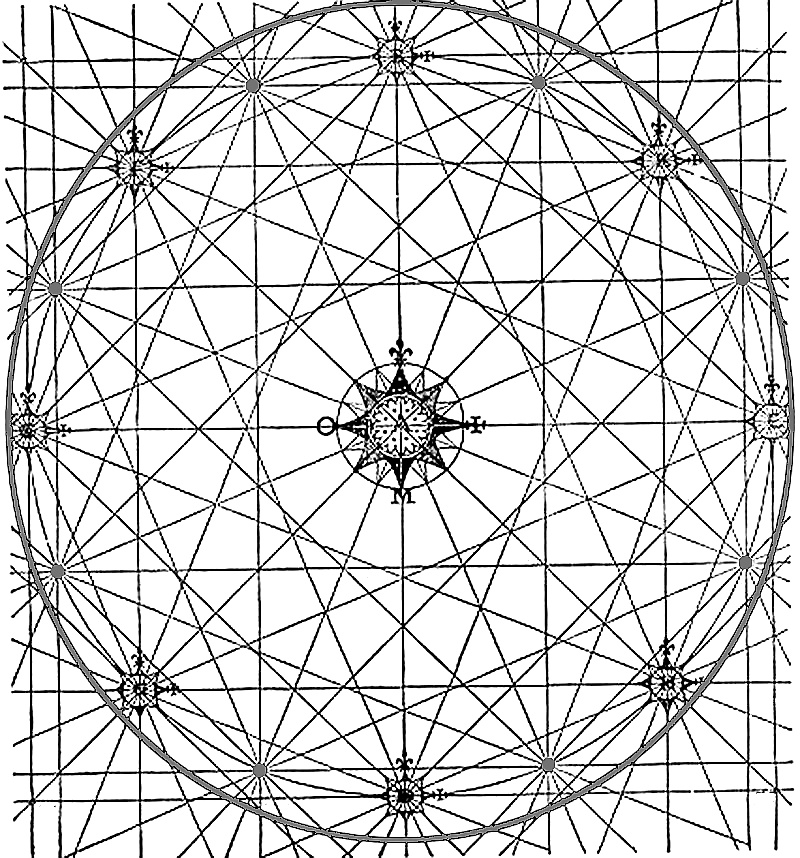 Rhumbline network used on Majorca's portolans